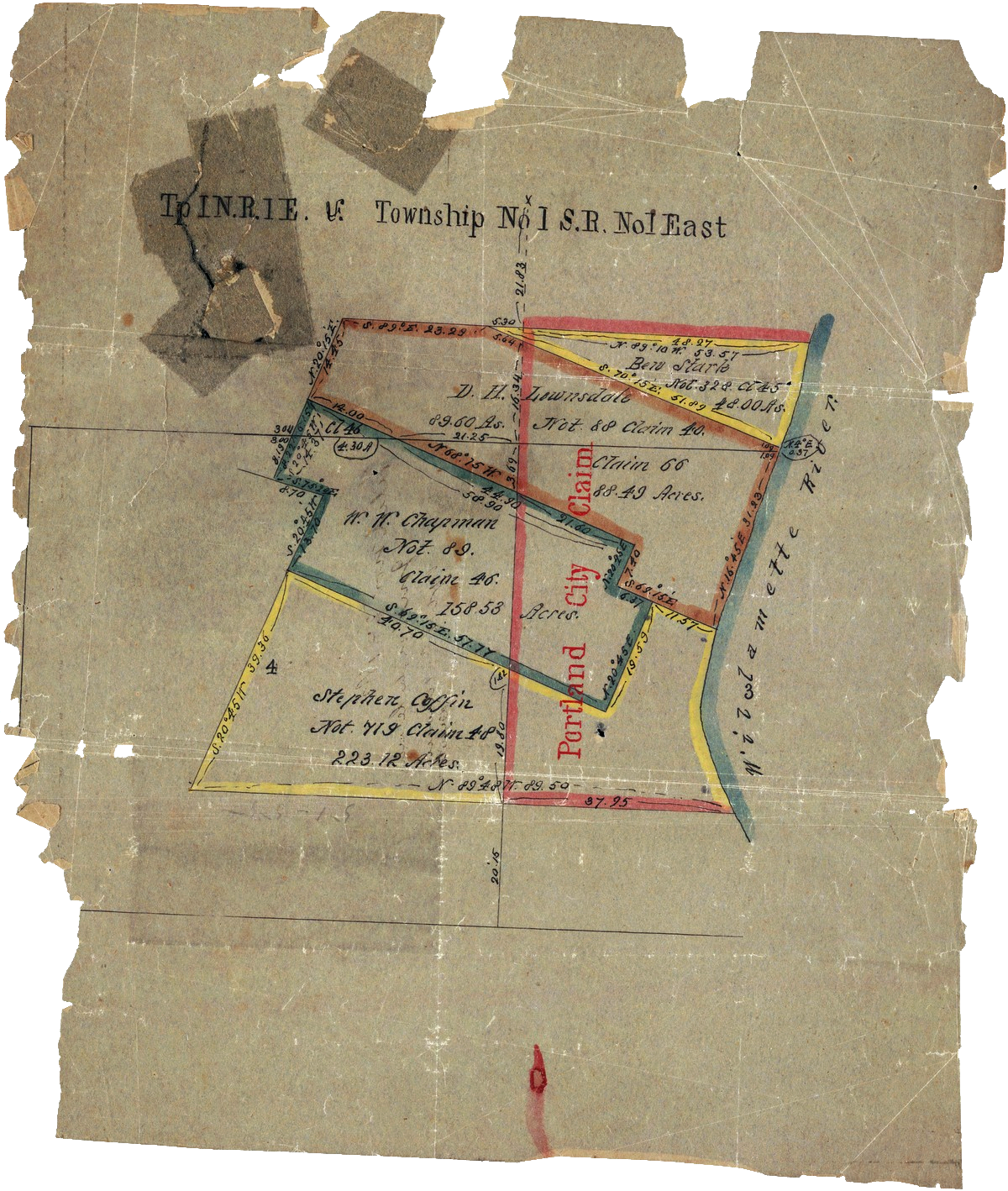 Plat map of Portland Township No. 1; From: Oregon document miscellany, 1843-1864. See also this slightly later/more complete plat map: File:Map of Portland, Oregon land claims from Gaston book.png